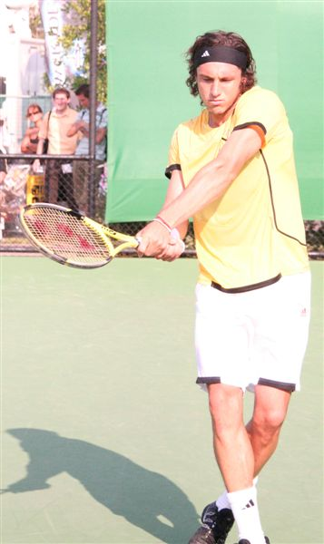 Juan Mónaco at the 2007 Australian Open